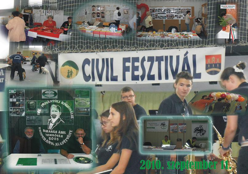 Esperanto poster in Dombóvár, Hungary